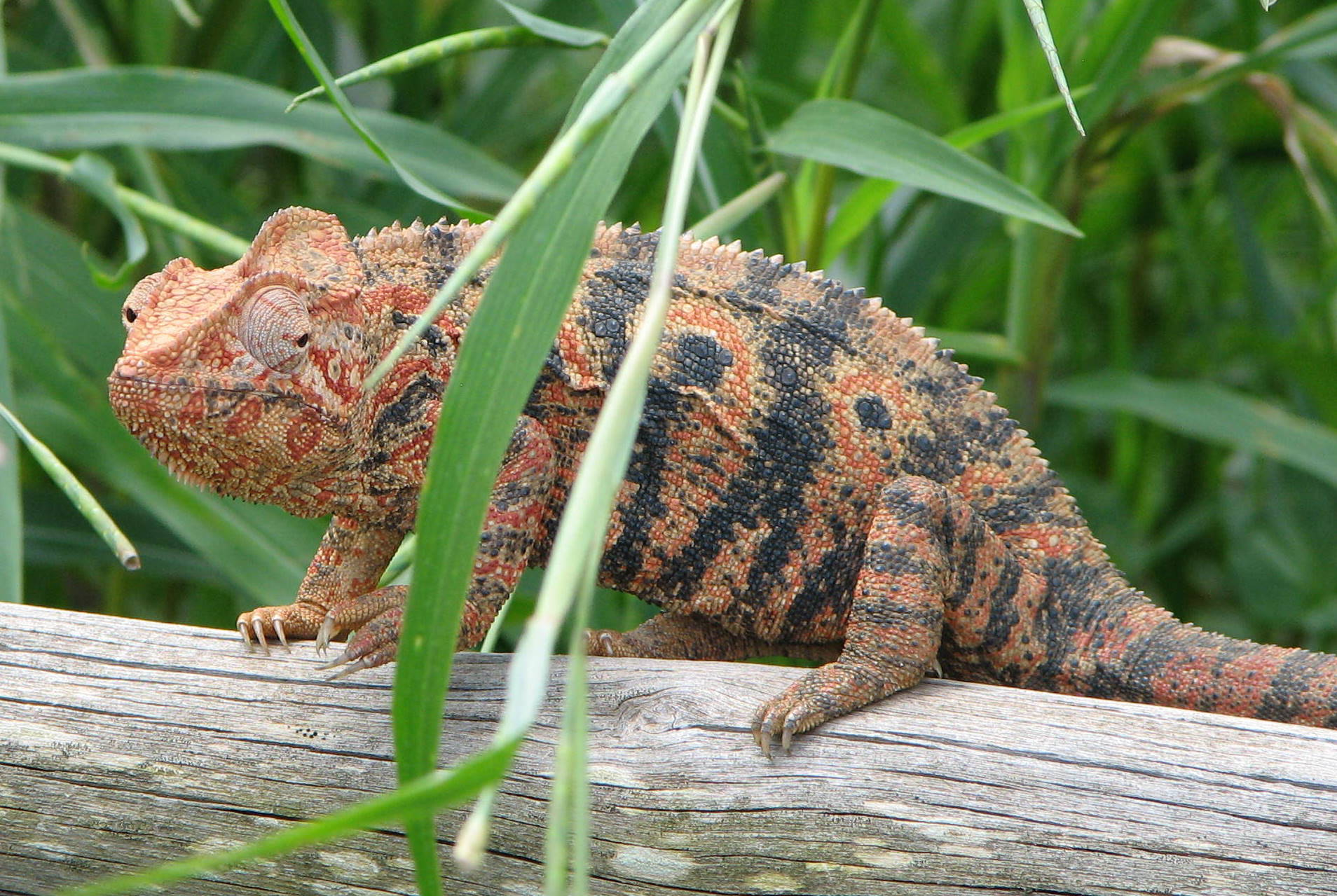 Oustalet's Chameleon, Ambalavao, Madagascar